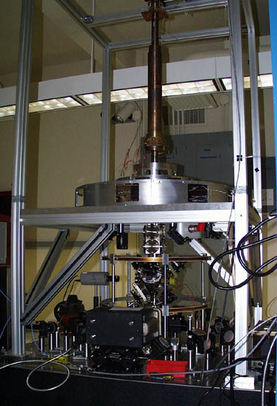 Cesium fountain atomic clock with no shielding (USNO)